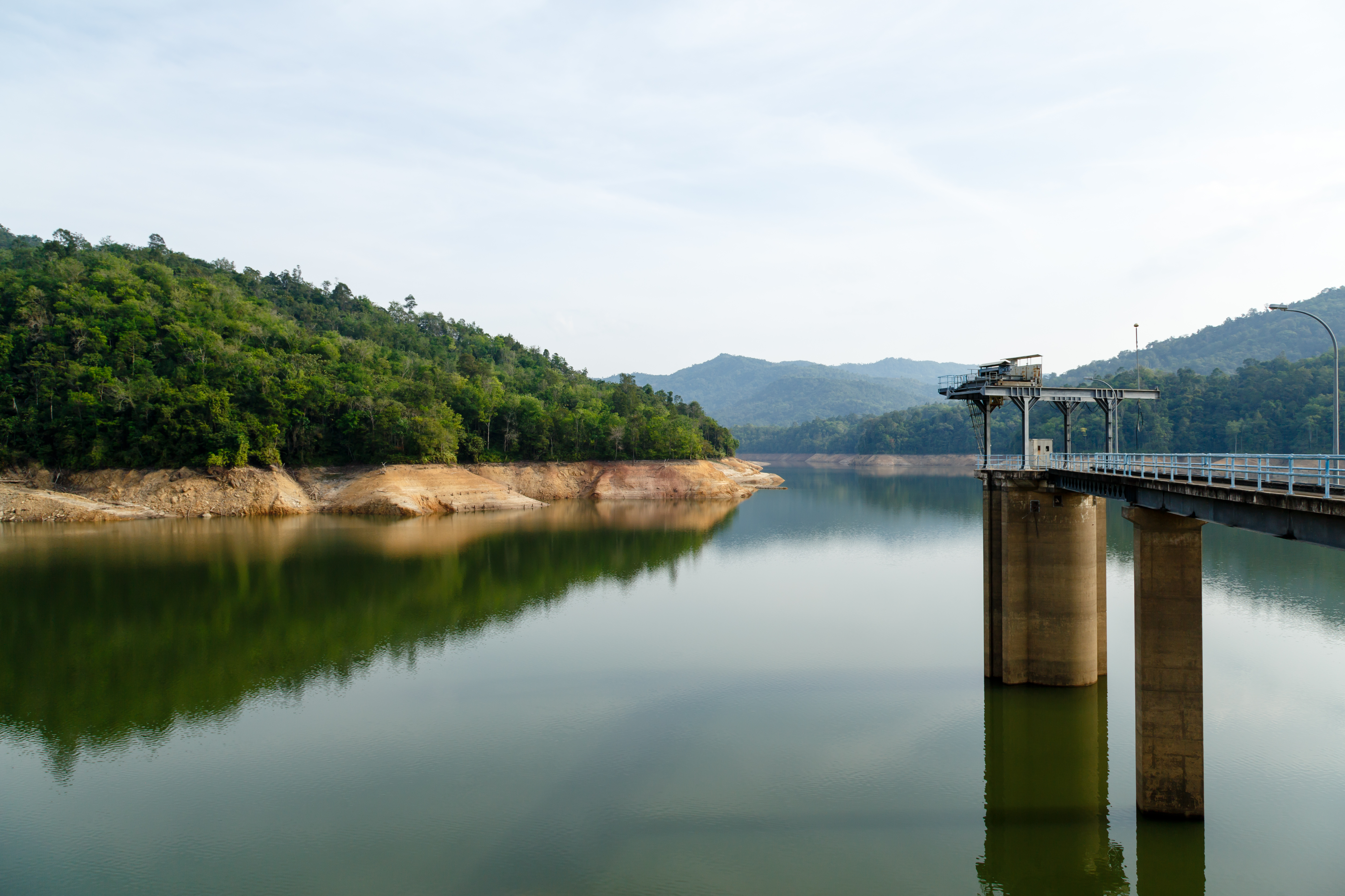 Babagon, Sabah: Babagon Dam, the biggest water catchment of Sabah built in 1997.